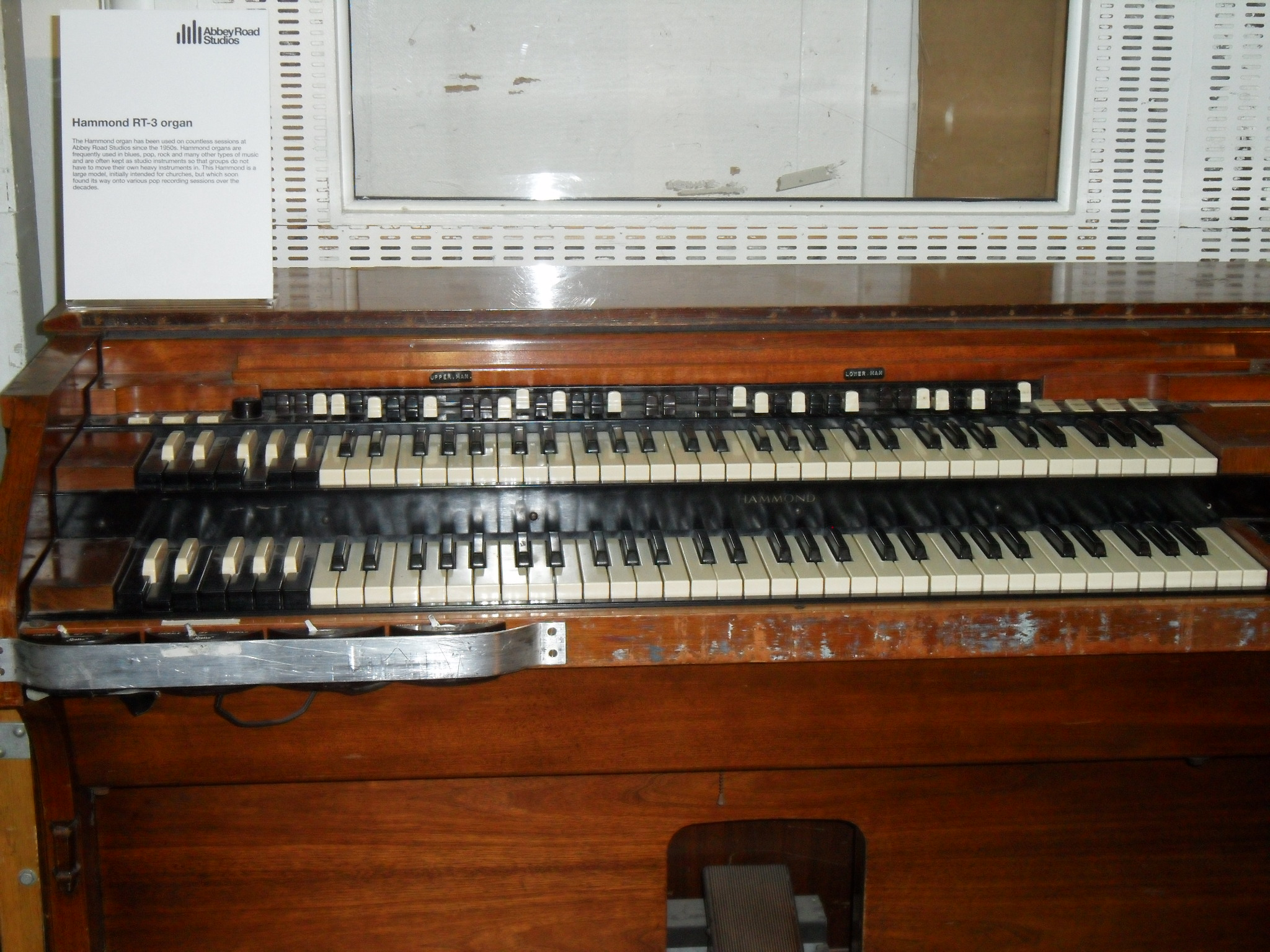 Hammond RT-3, Recording the Beatles, Abbey Road Studios